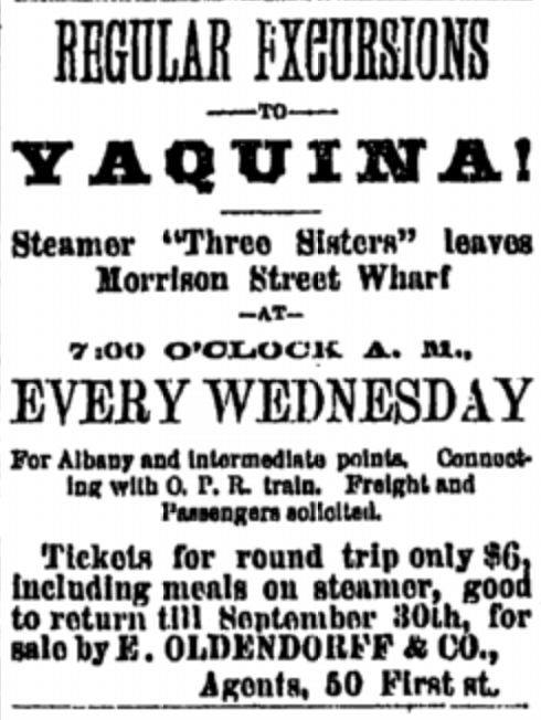 Advertisement for excursions to Yaquina Bay from Portland Oregon, using rail lines and steamboat service.